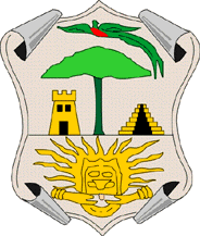 Coat of arms of this department of Guatemala Permission